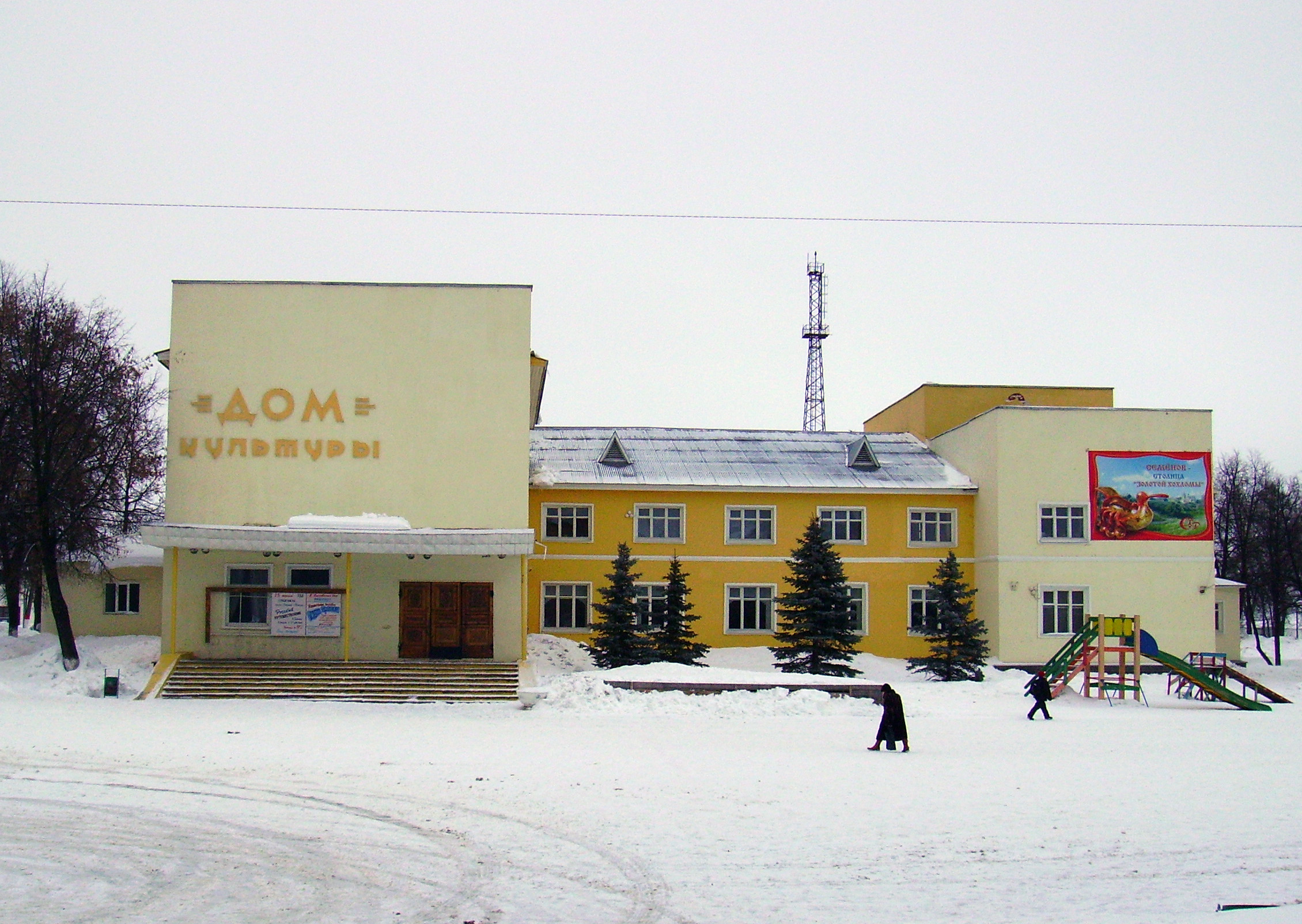 Semyonov District House of Culture